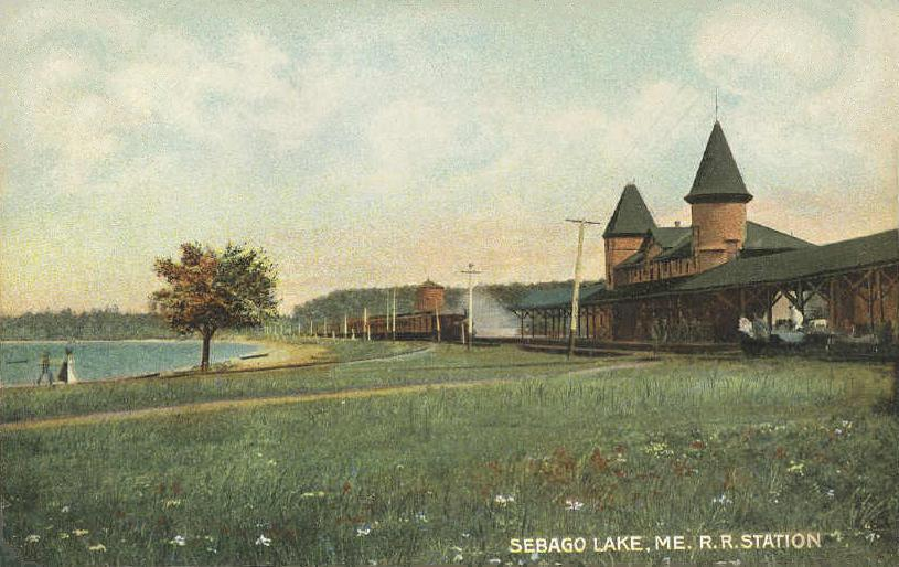 Sebago Lake Station, Standish, Maine. The Queen Anne style building was erected by the Mountain Division of the Maine Central Railroad in 1890, but closed in 1935. The depot no longer exists.